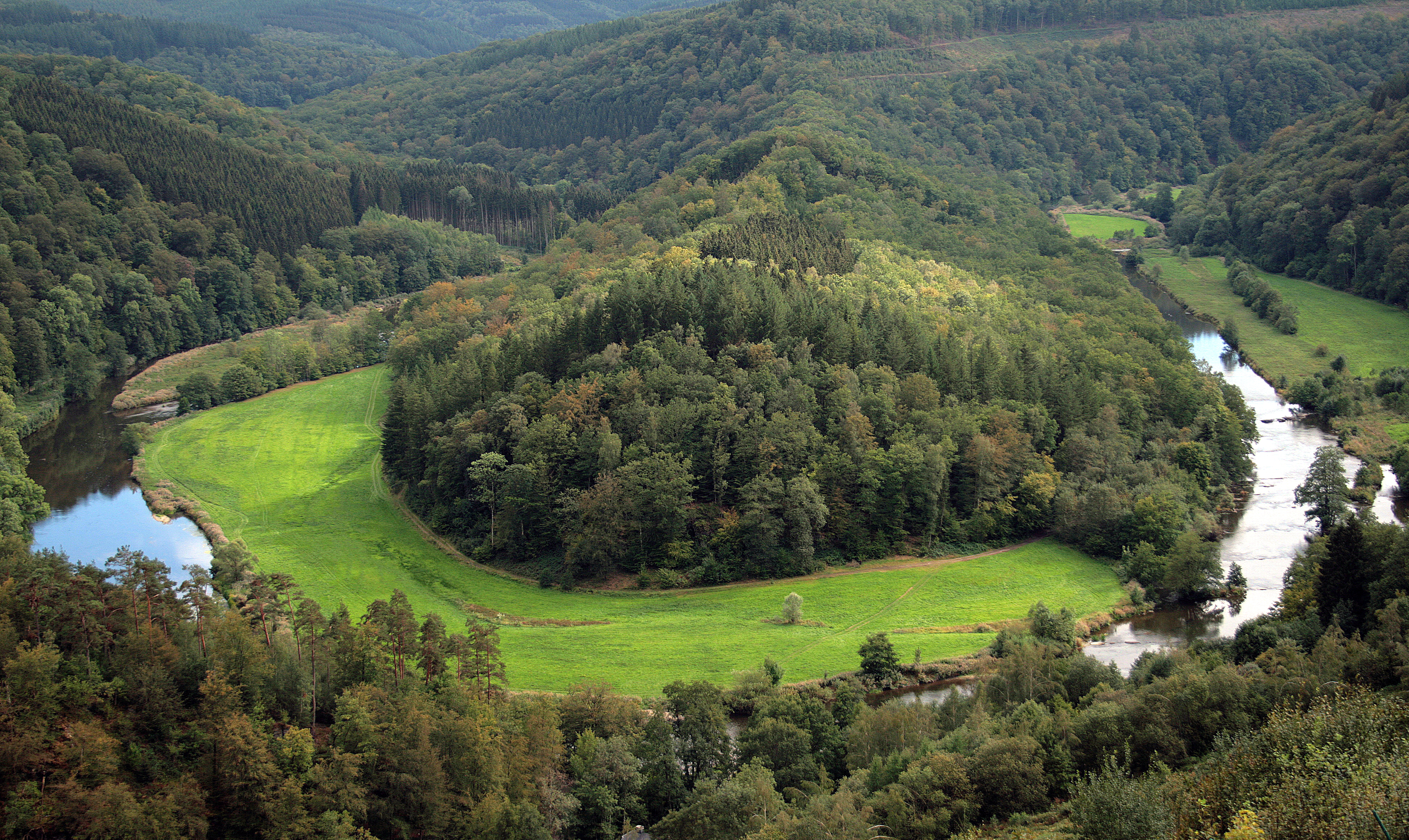 Botassart (Belgium), the "Tombeau du Géant" and the Semois river.